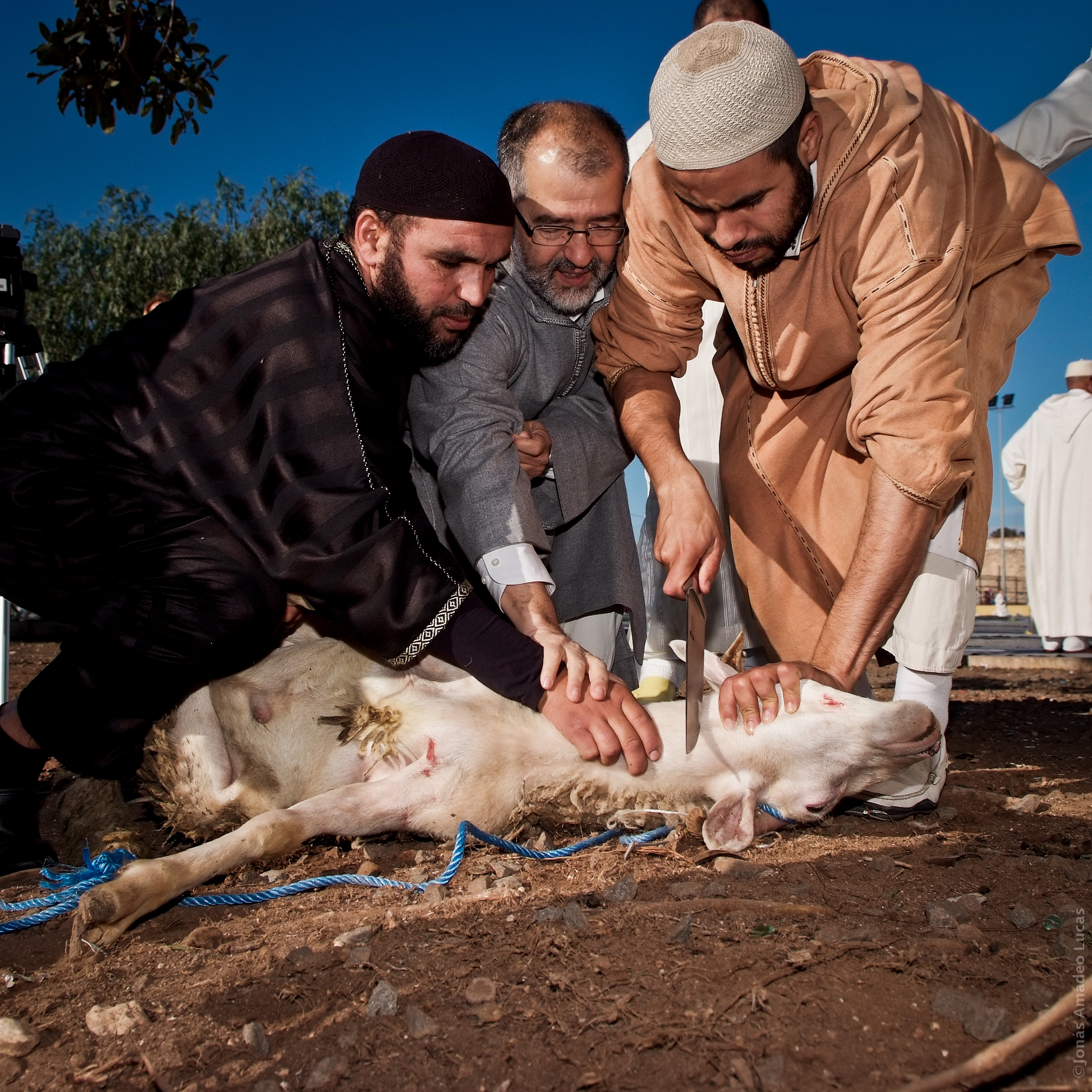 JALX12FCX01-2566 Corderos, lamb sacrifice on Id al Adha, Islamic festival of animal sacrifice, religion rites and rituals, Eid